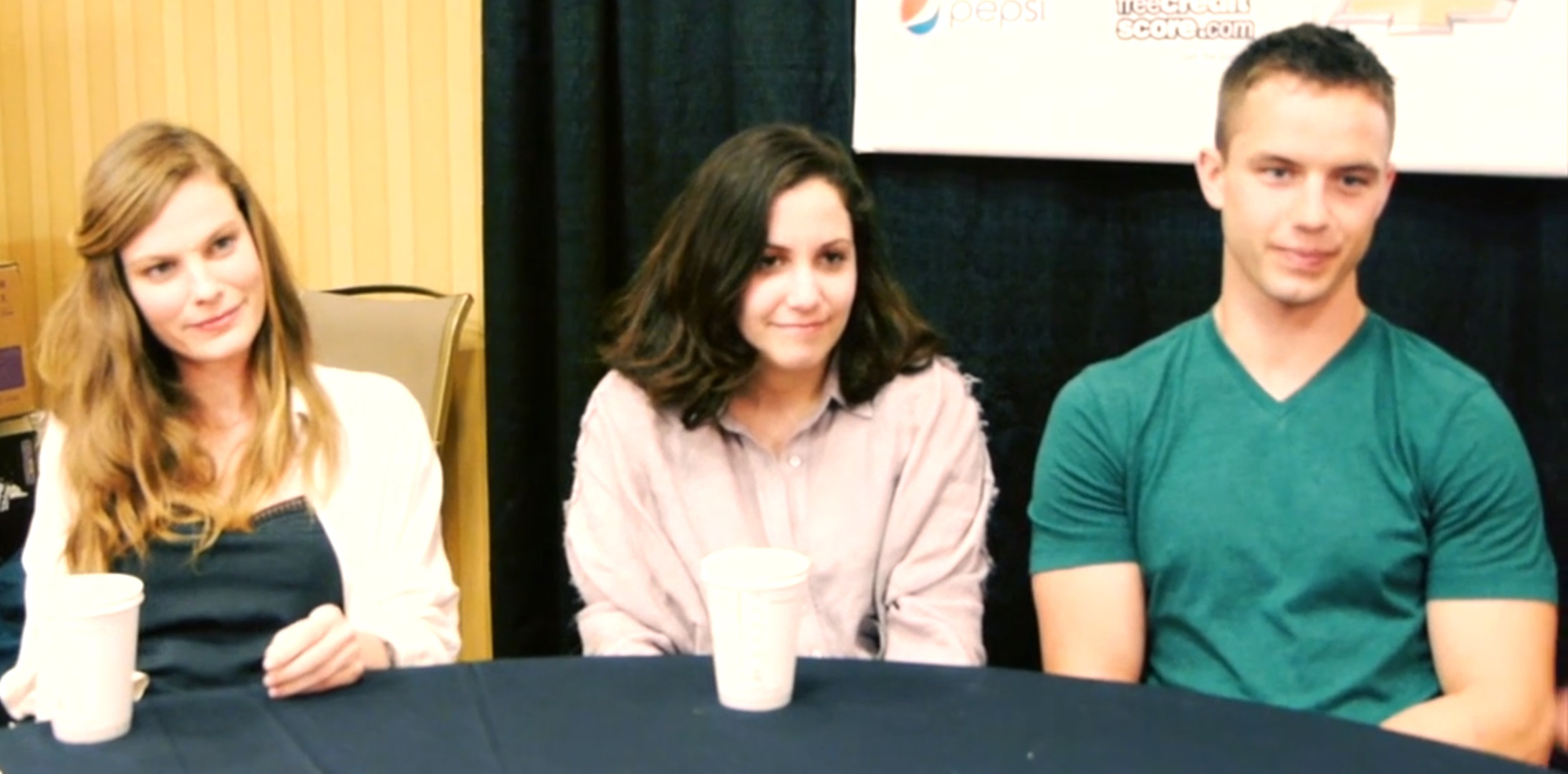 Lindsay Burdge, Hannah Fidell, & Will Brittain SXSW Film 2013 Interview in Austin, TX with Smells Like Screen Spirit in support of A Teacher.